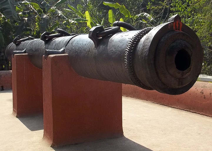 Jahan Kosha Cannon - Murshidabad